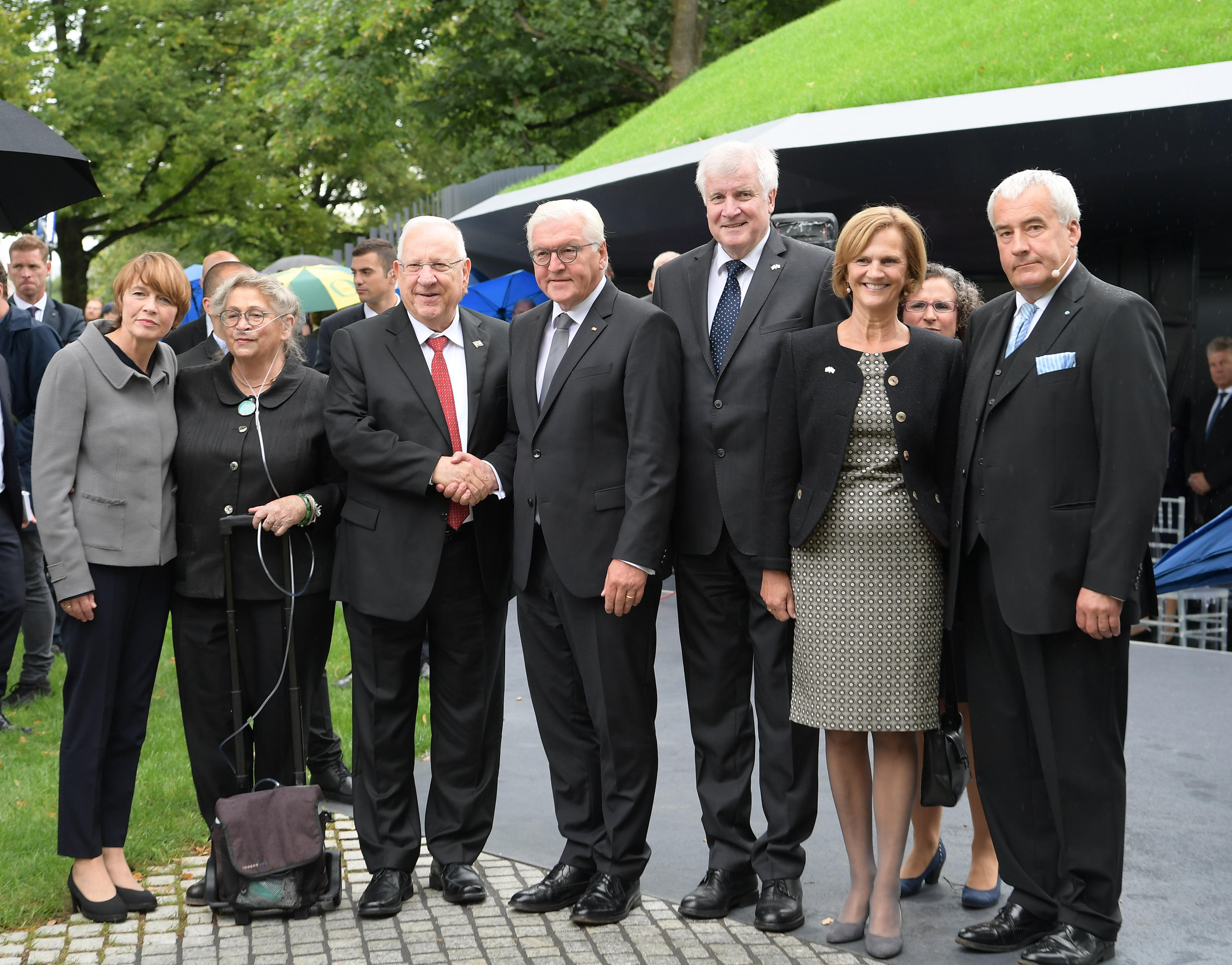 The President of the State of Israel, Reuven Rivlin, at the ceremony commemorating the victims of the Munich Olympics in 1972, after participating in the dedication ceremony of the athletes' memorial site, which was attended by the President of Germany and the Prime Minister of Bavaria. Wednesday, September 6, 2017. Photo credit: Amos Ben Gershom.